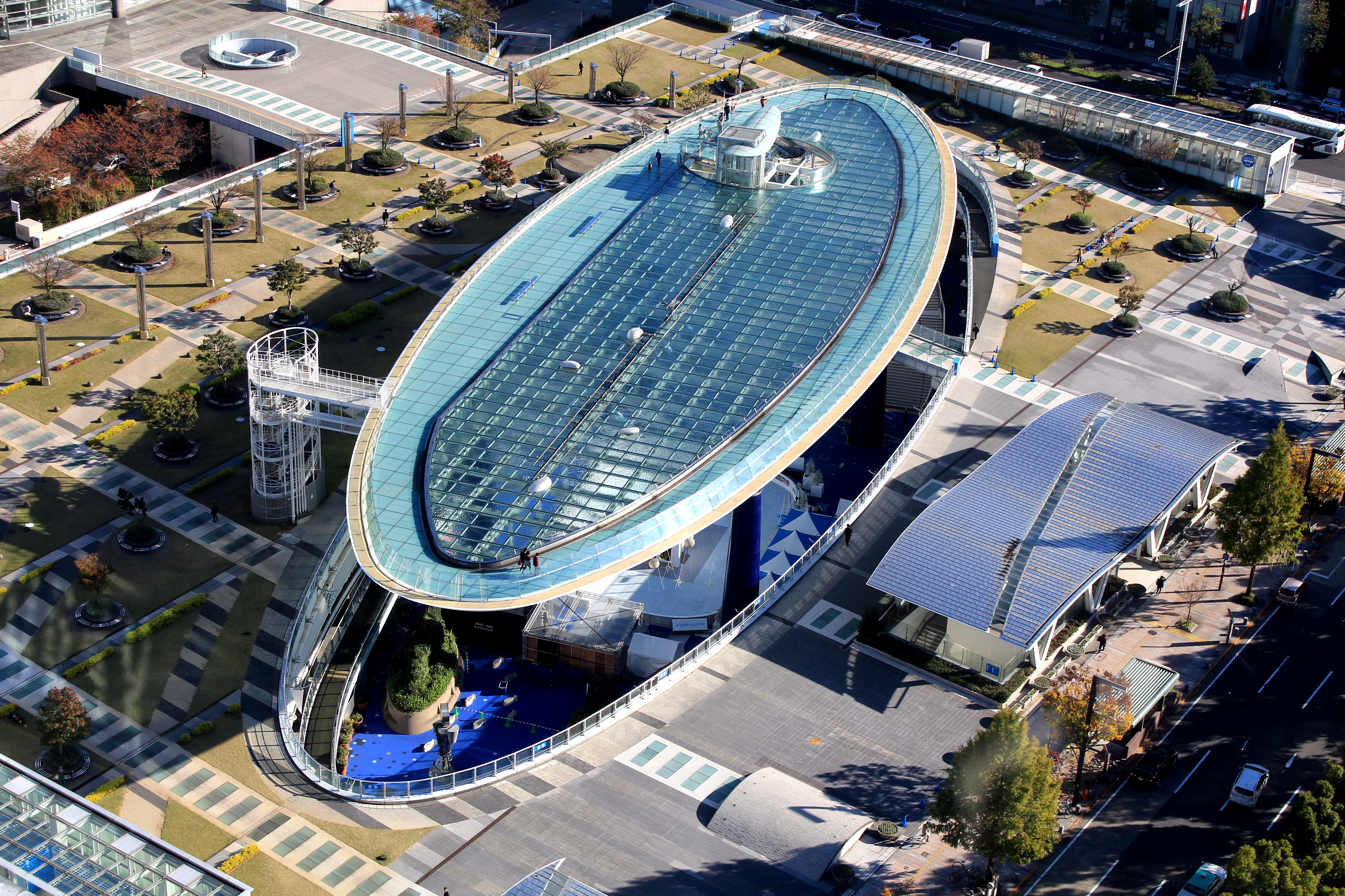 Oasis 21 seen from Nagoya TV Tower in Nagoya, Aichi prefecture, Japan.